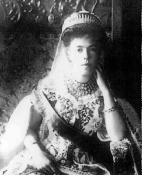 Olga Alexandrovna of Russia